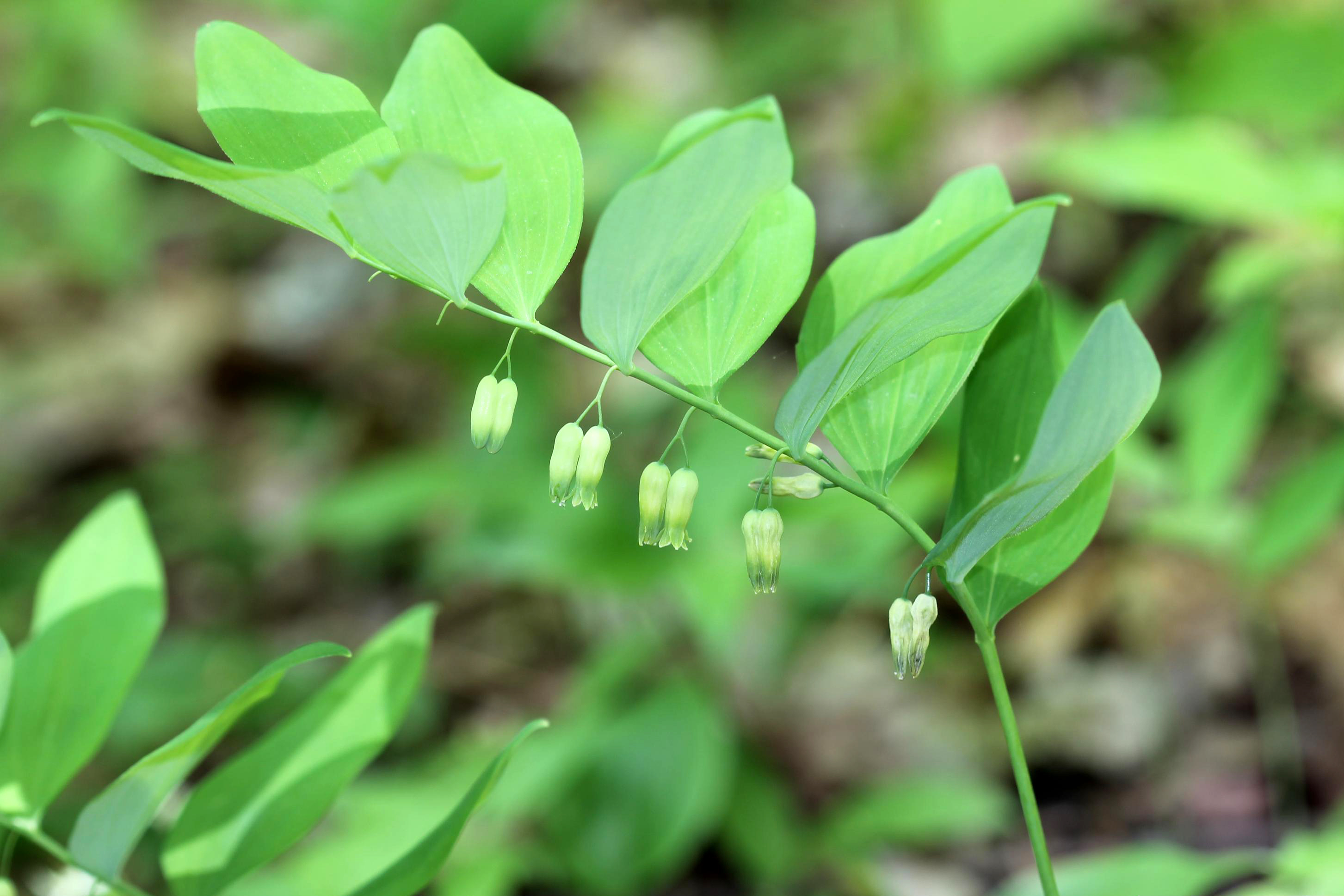 hairy Solomon's seal Polygonatum pubescens (Willd.) Pursh Descriptor: Plant(s) Description: Polygonatum pubescens (hairy solomon's seal) Image type: Field Image location: Robertson Creek falls, Goulais River, Ontario, Canada